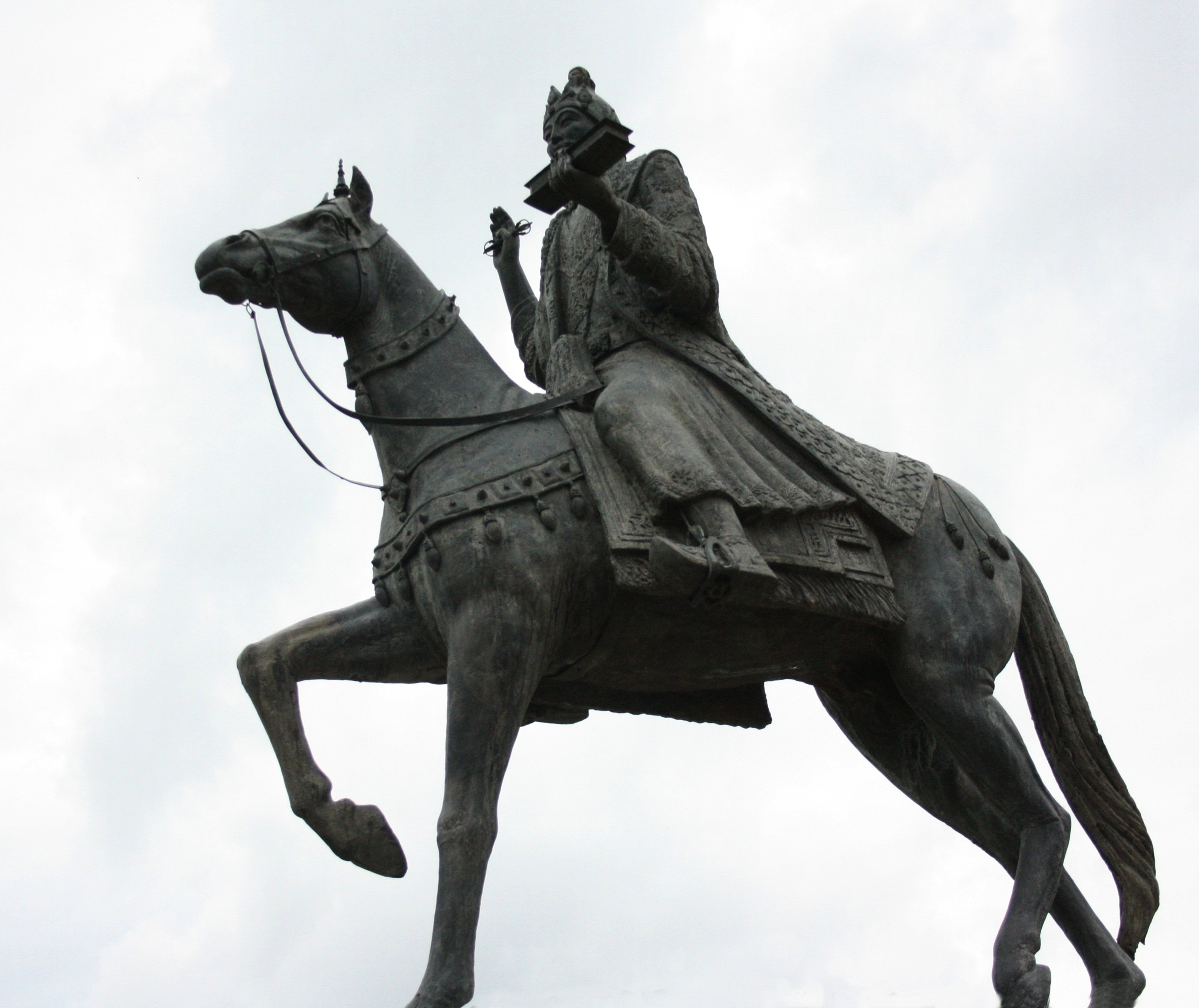 View On Black Recently I have been to Songtsen Library(dehradun,India)..Saw this Statue of King Songtsen Gampo on horseback in front of the Library ...According to them this statue of King Songtsen Gampo (617 -650 AD) is believed to be an emanation of Avalokitesvara, the Buddha of Compassion. He is credited with bringing Buddhism to Tibet. The institution is named after the 33rd Tibetan King, Songtsen Gampo (617-650). The sculpture, executed by the Western nun Khenmo Drolma